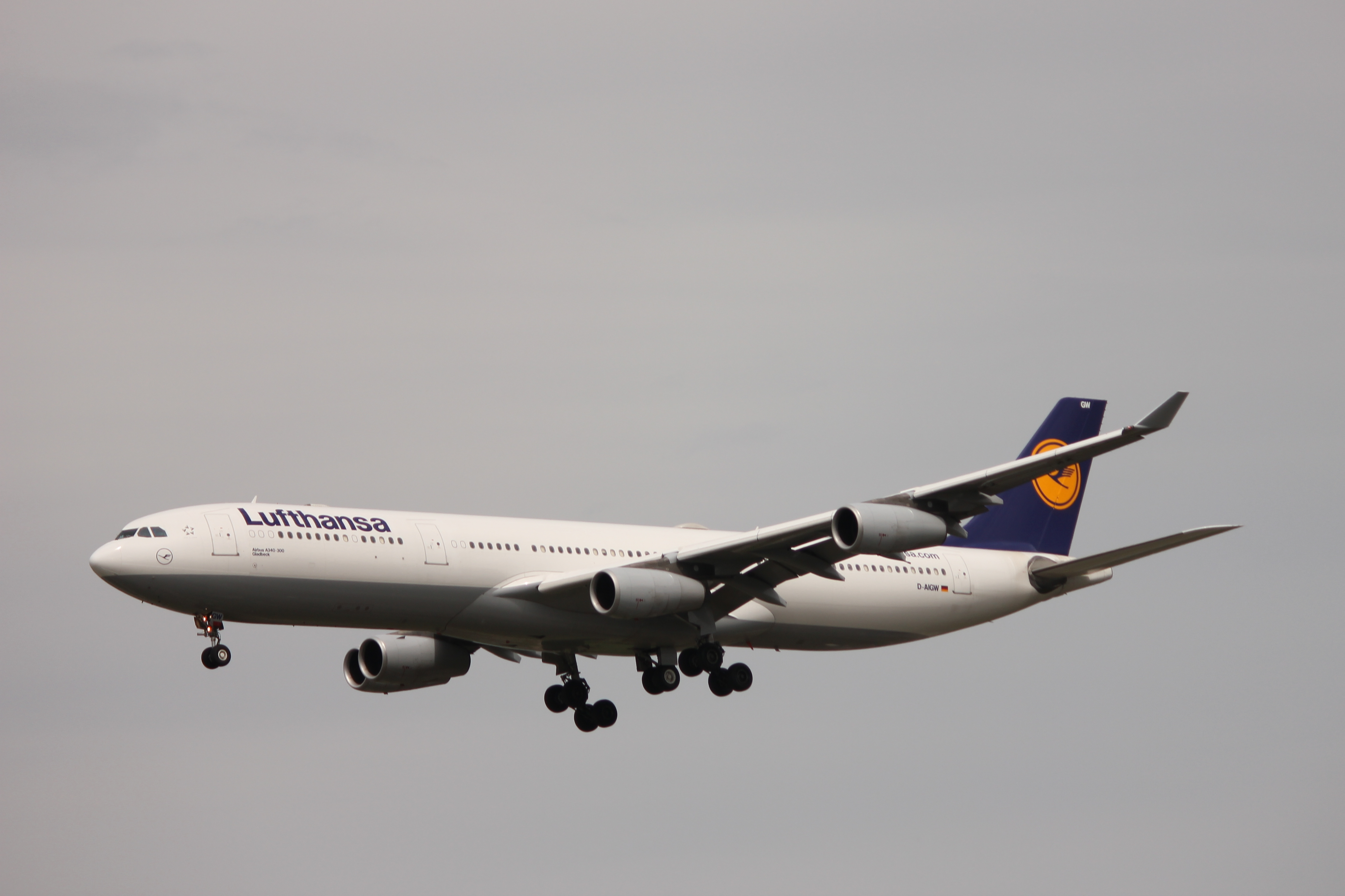 An A340-300 of Lufthansa landing at Frankfurt Airport